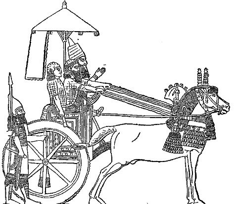 An illustration from the Encyclopaedia Biblica, a 1903 publication which is now in the public domain. Fig. 6 for article "Chariot". Image of Sennacherib's State Chariot. Taken from a relief from Nimrod now housed in the British Museum.